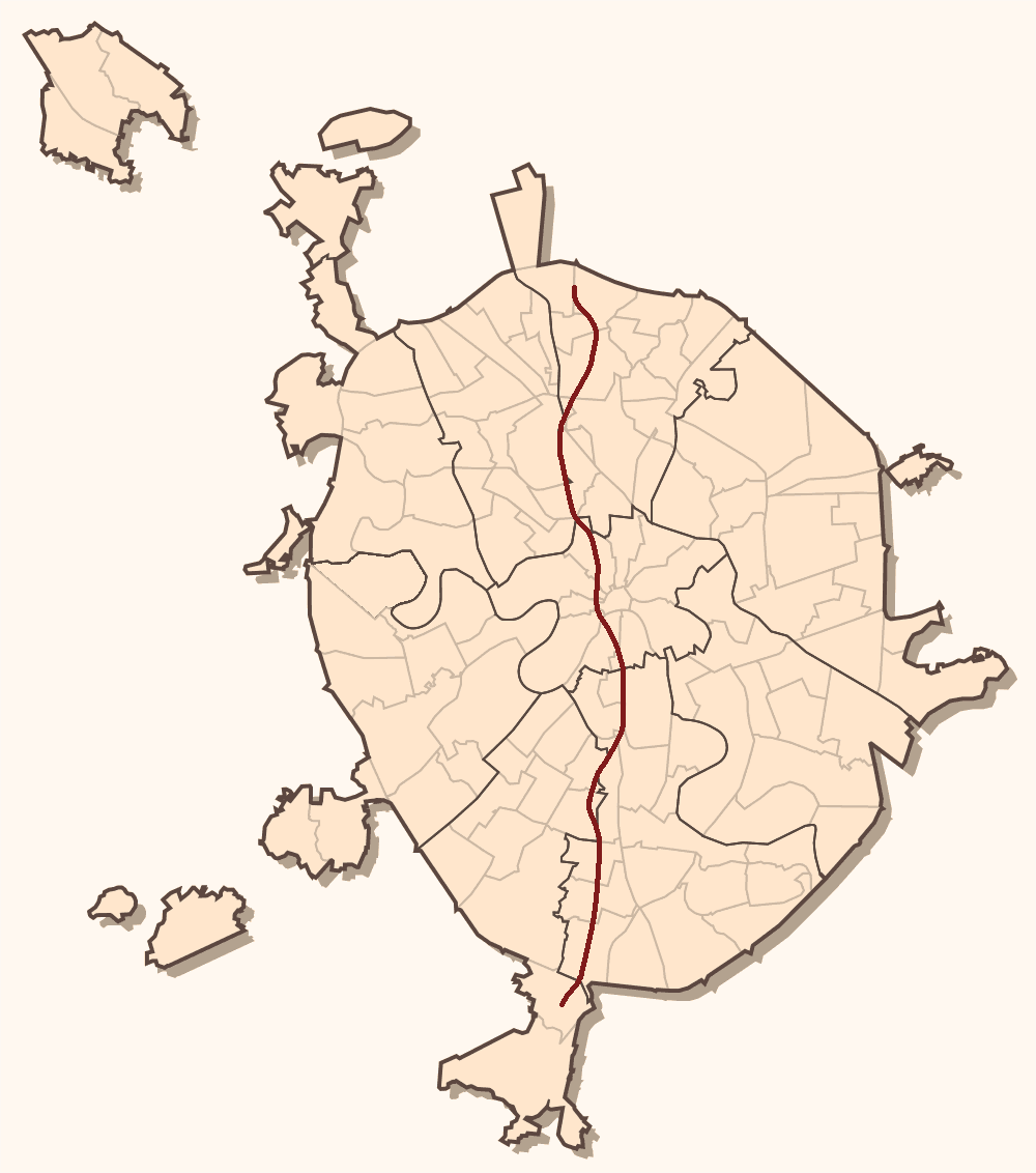 Map of Serpukhovsho-Timiryazevskaya line of Moscow Metro on Moscow map